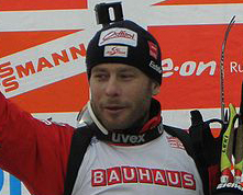 Daniel Mesotitsch (1976), Biathlete from Austria (cropped from File:Biathlon Antholz 21-01-2010 Podium.jpg)